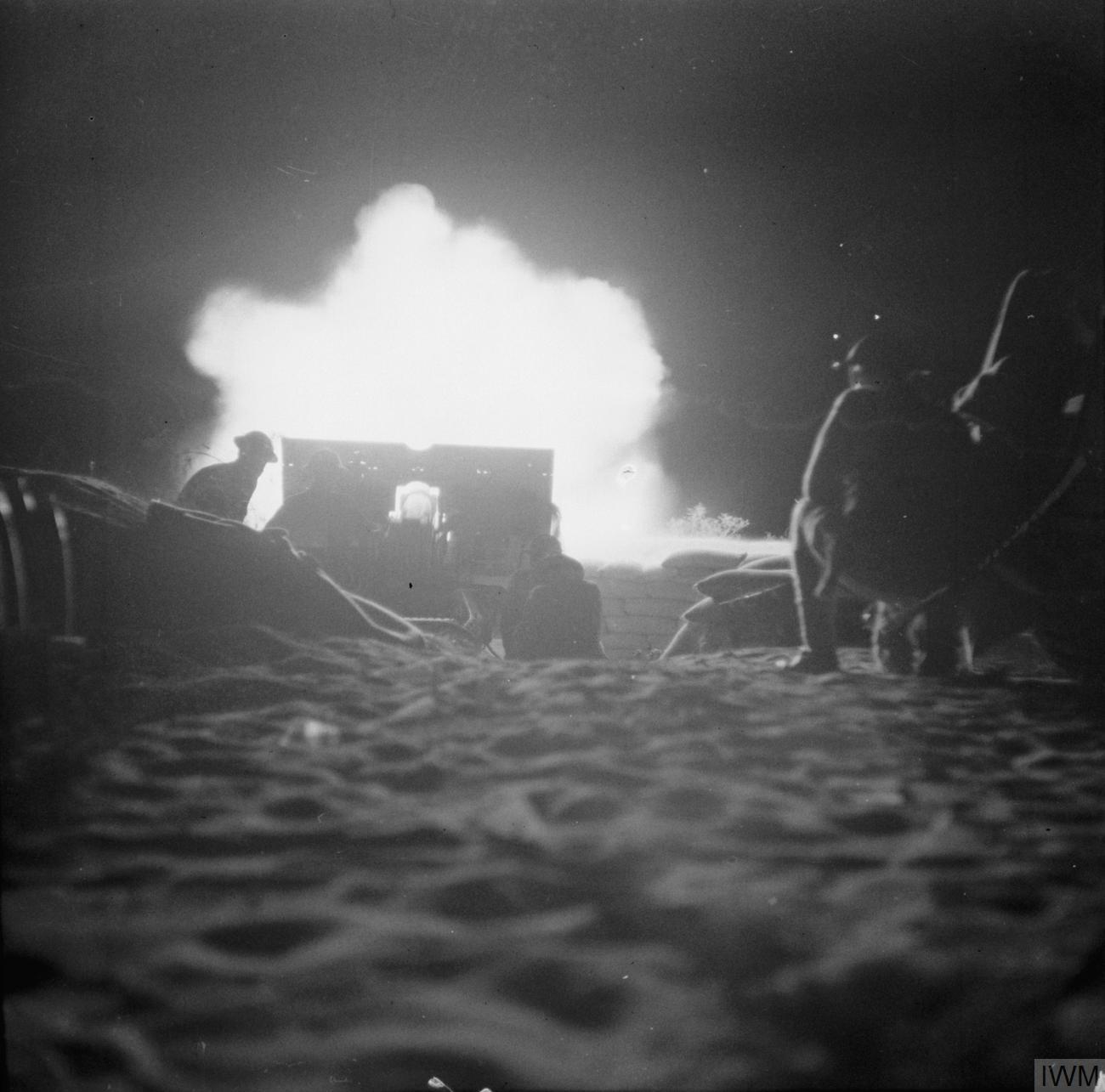 The Campaign in North Africa 1940-1943 A 25-pdr gun firing during the British night artillery barrage which opened Second Battle of El Alamein, 23 October 1942.